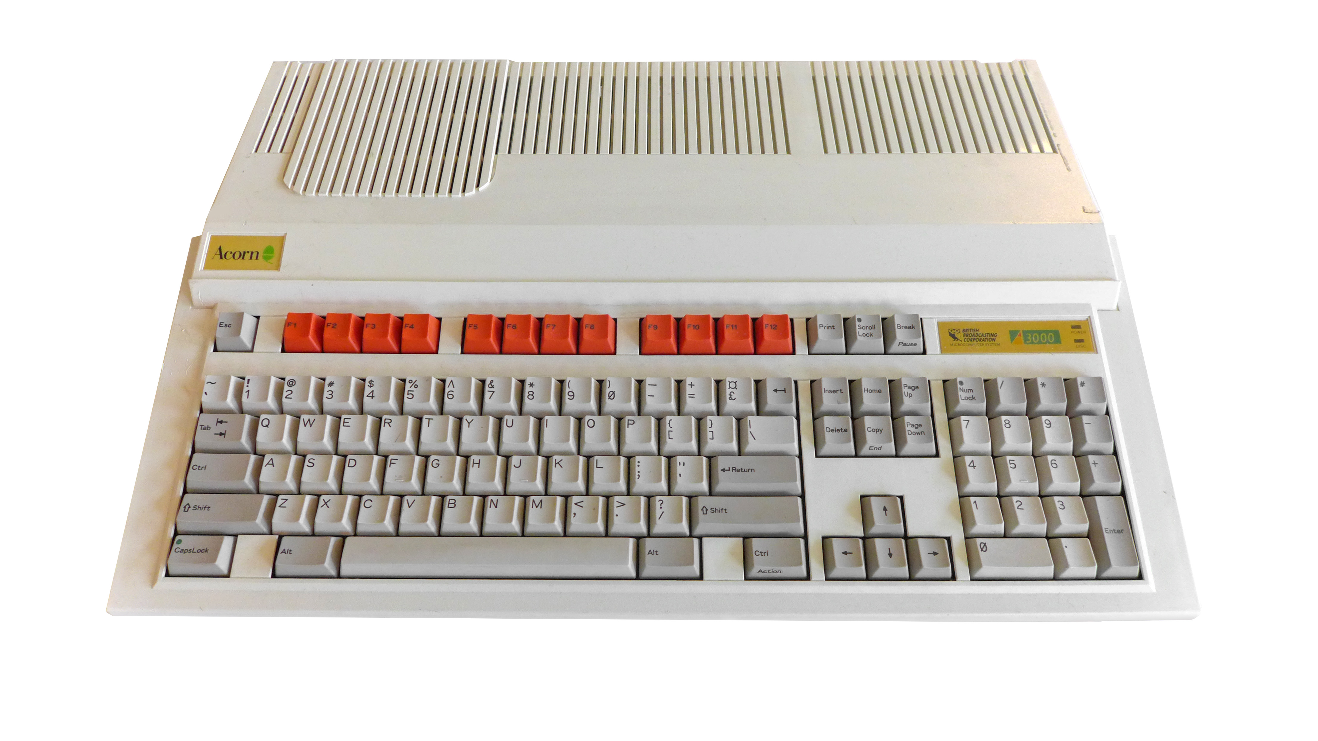 Acorn A3000, front view.